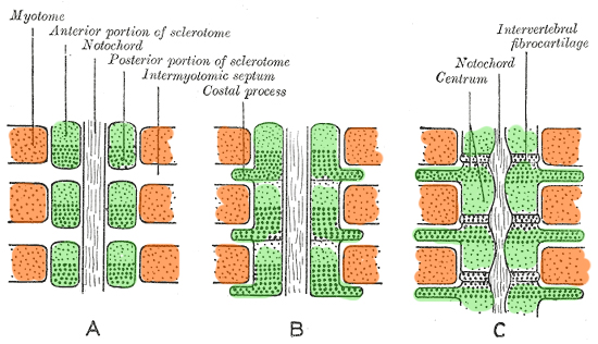 Scheme showing the manner in which each vertebral centrum is developed from portions of two adjacent segments.